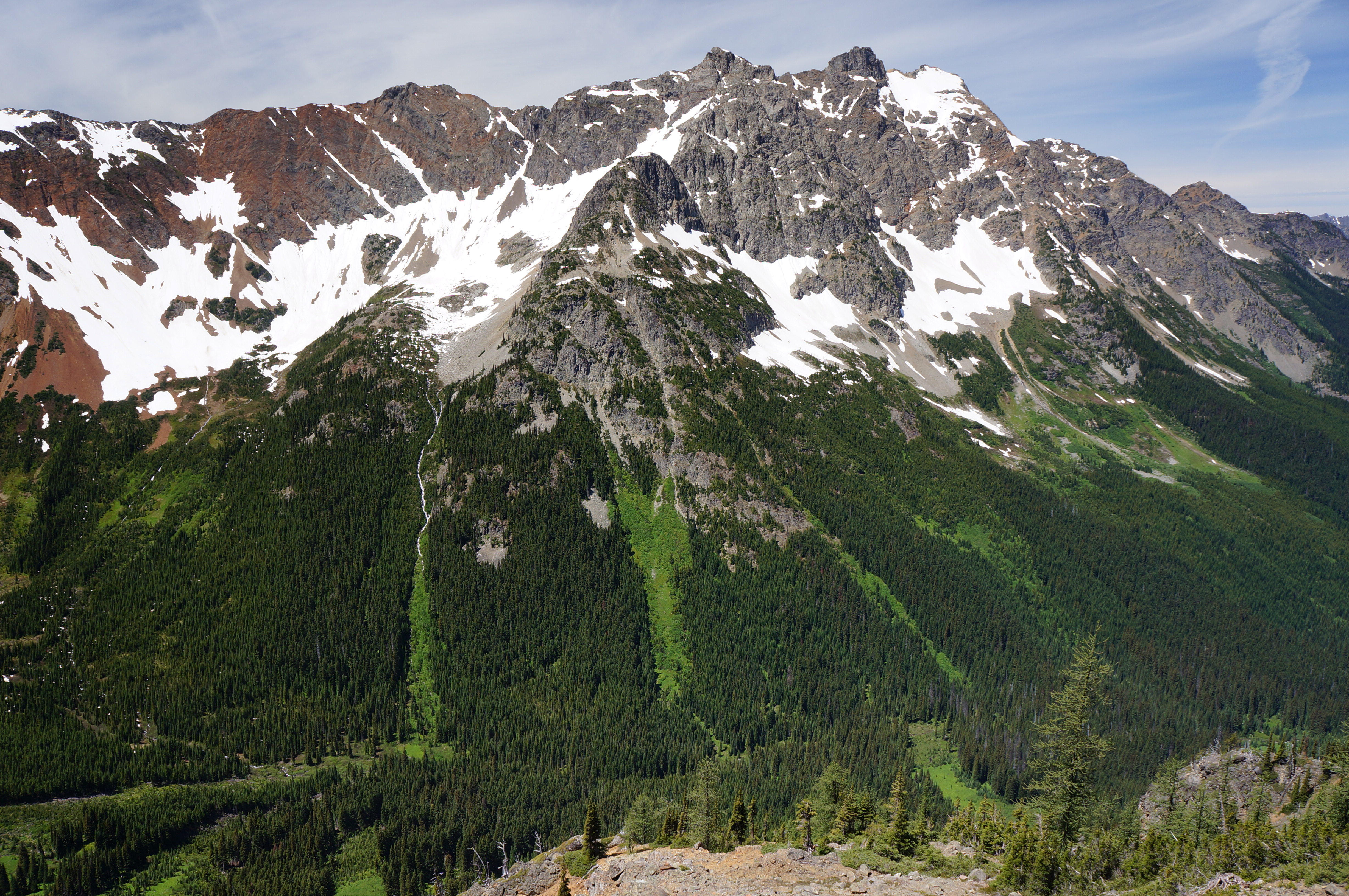 Mount Ballard seen from Pacific Crest Trail at Grasshopper Pass. North Cascades of WA